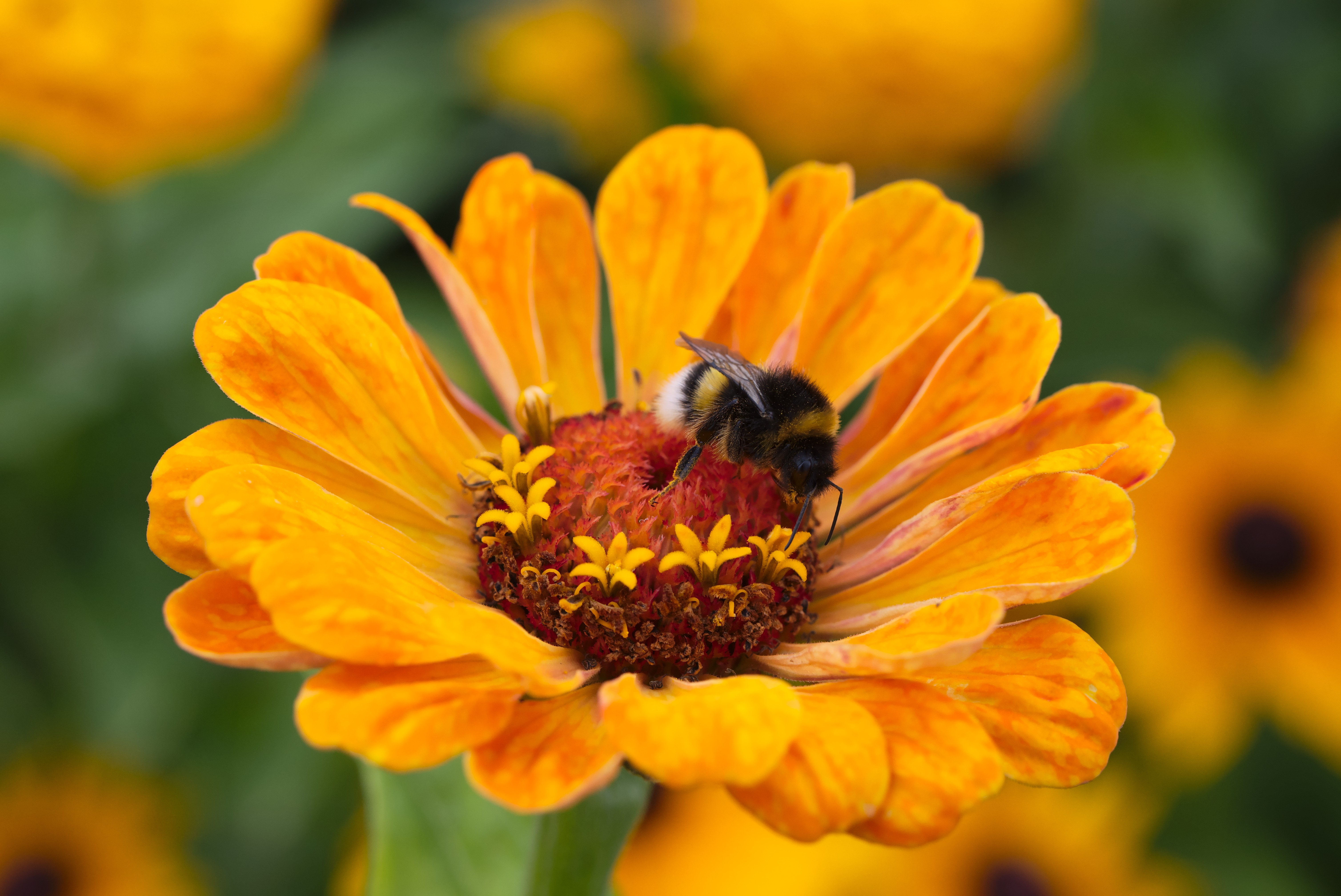 Bombus terrestris (buff-tailed bumblebee) on the flower head of a Zinnia elegans (youth-and-age), photographed in Weimar, Germany, under natural light.